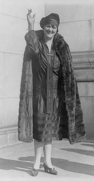 Polish soprano Rosa Raisa (1893-1963)